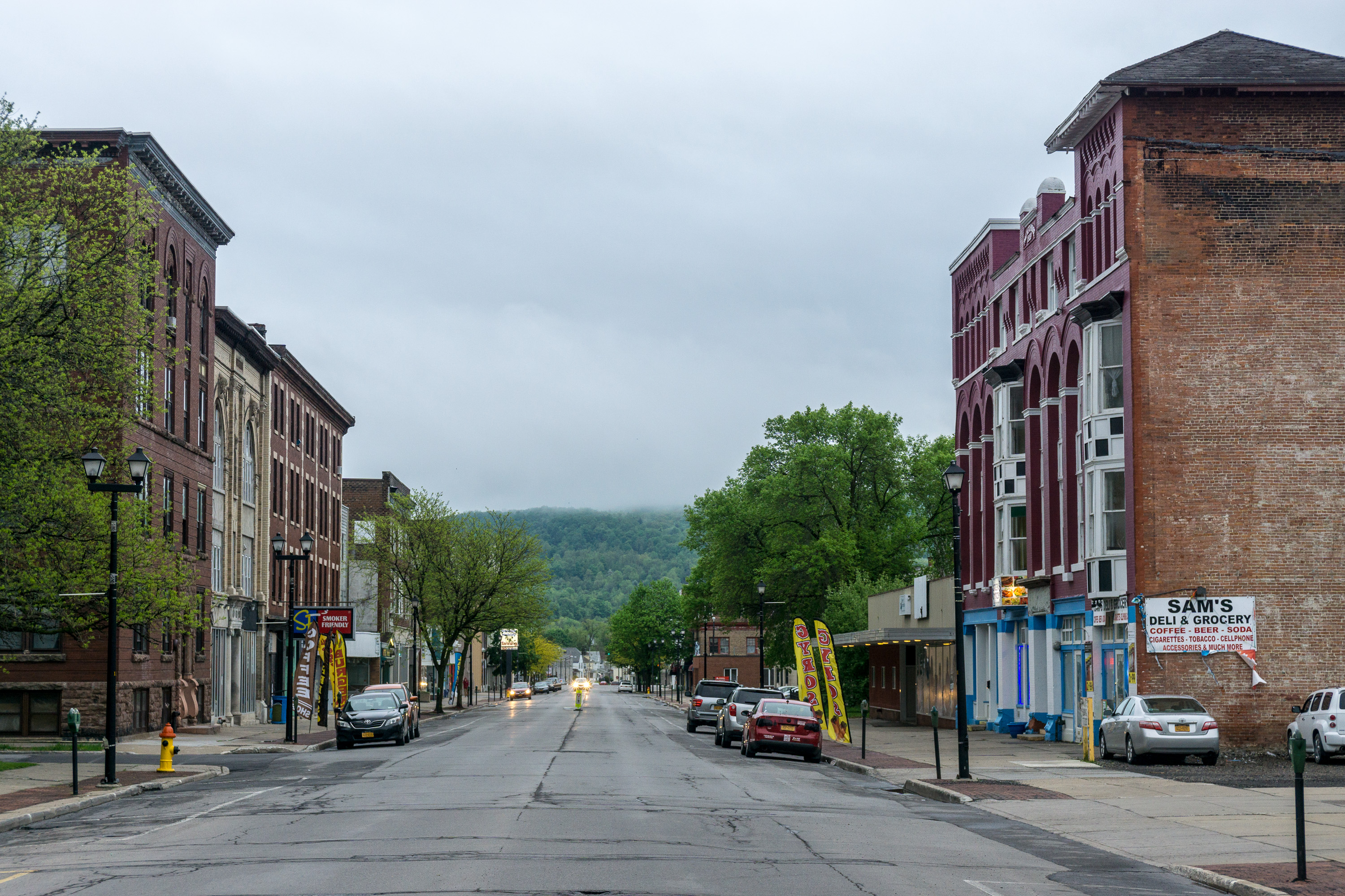 Looking north down North Main Street. Herkimer, New York